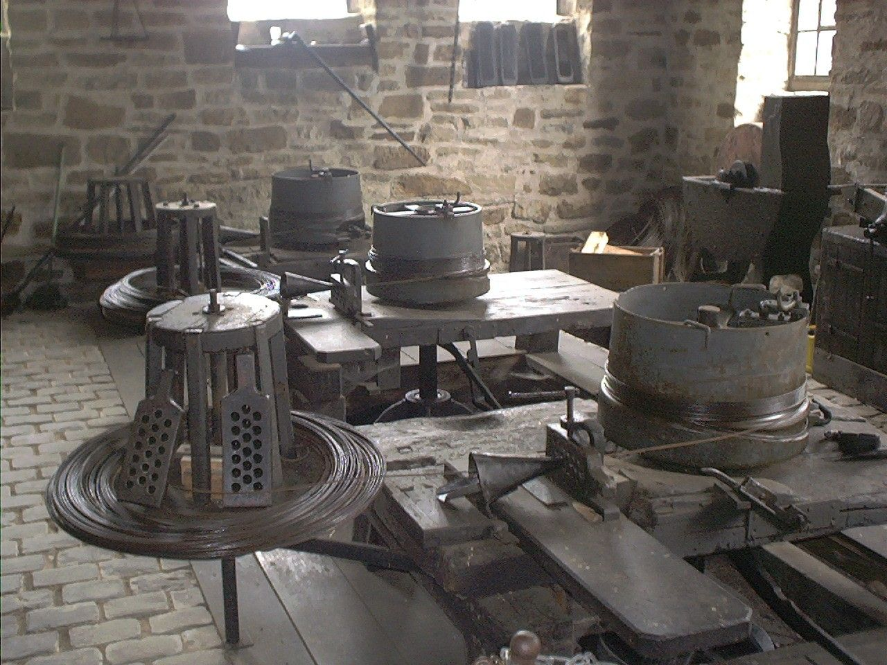 Wire drawing machine from 19th century